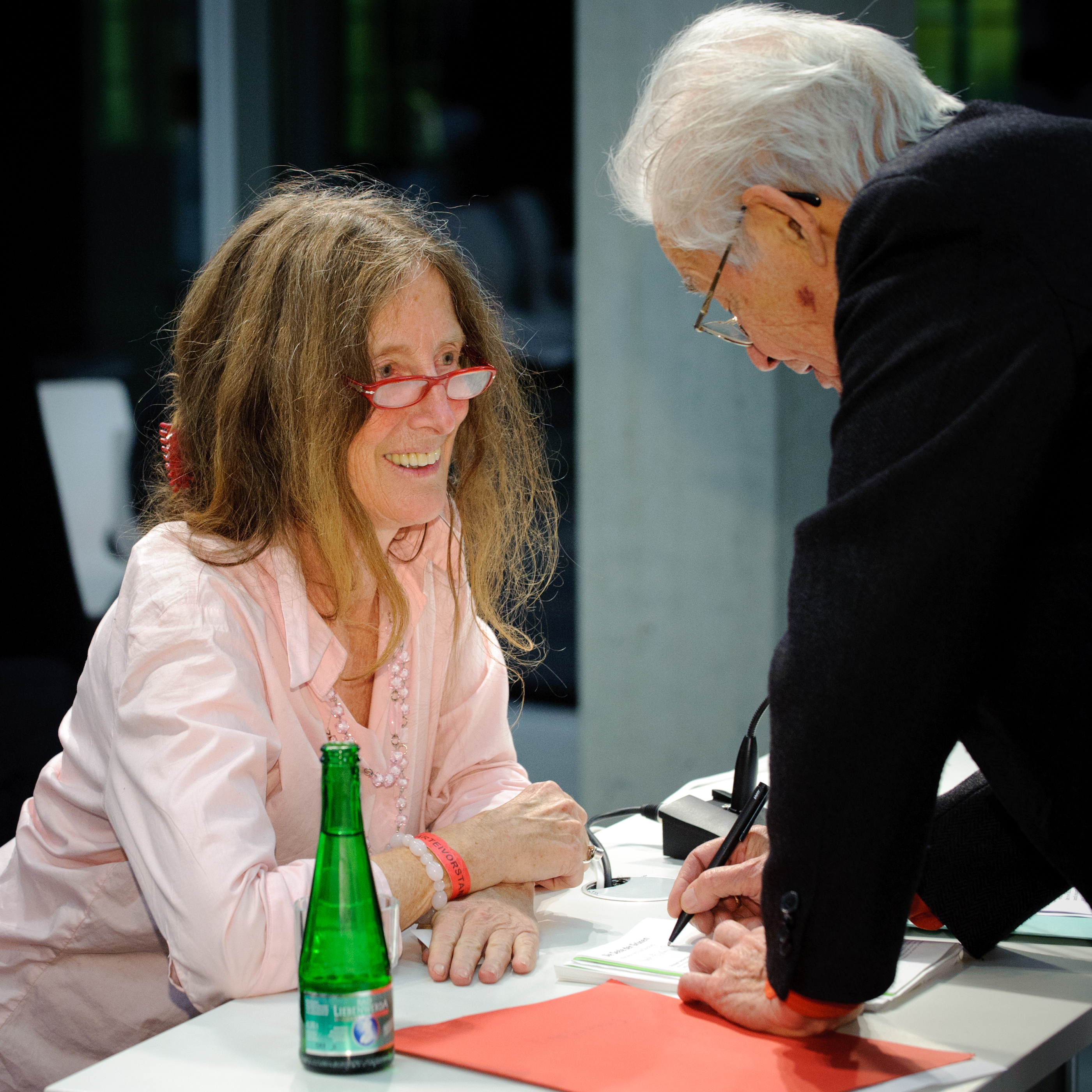 Eva Quistorp Foto: CC-BY-SA Stephan Röhl